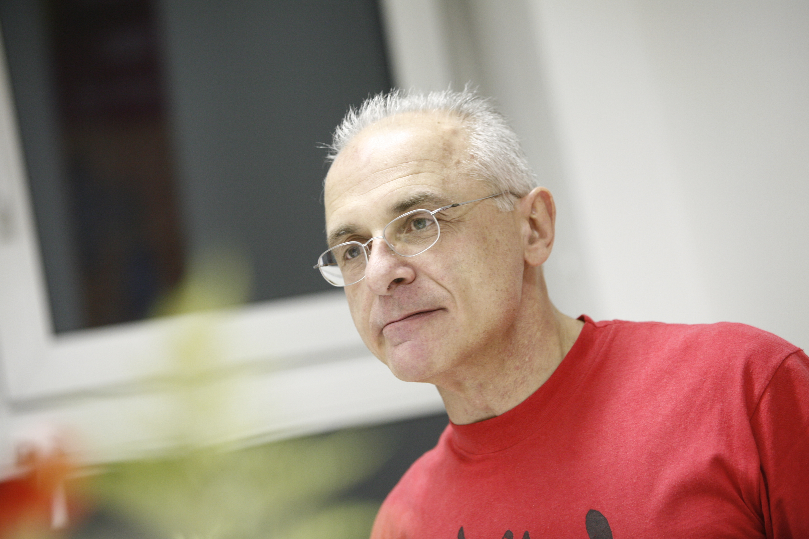 Giannalberto Bendazzi at Stuttgart, 2007